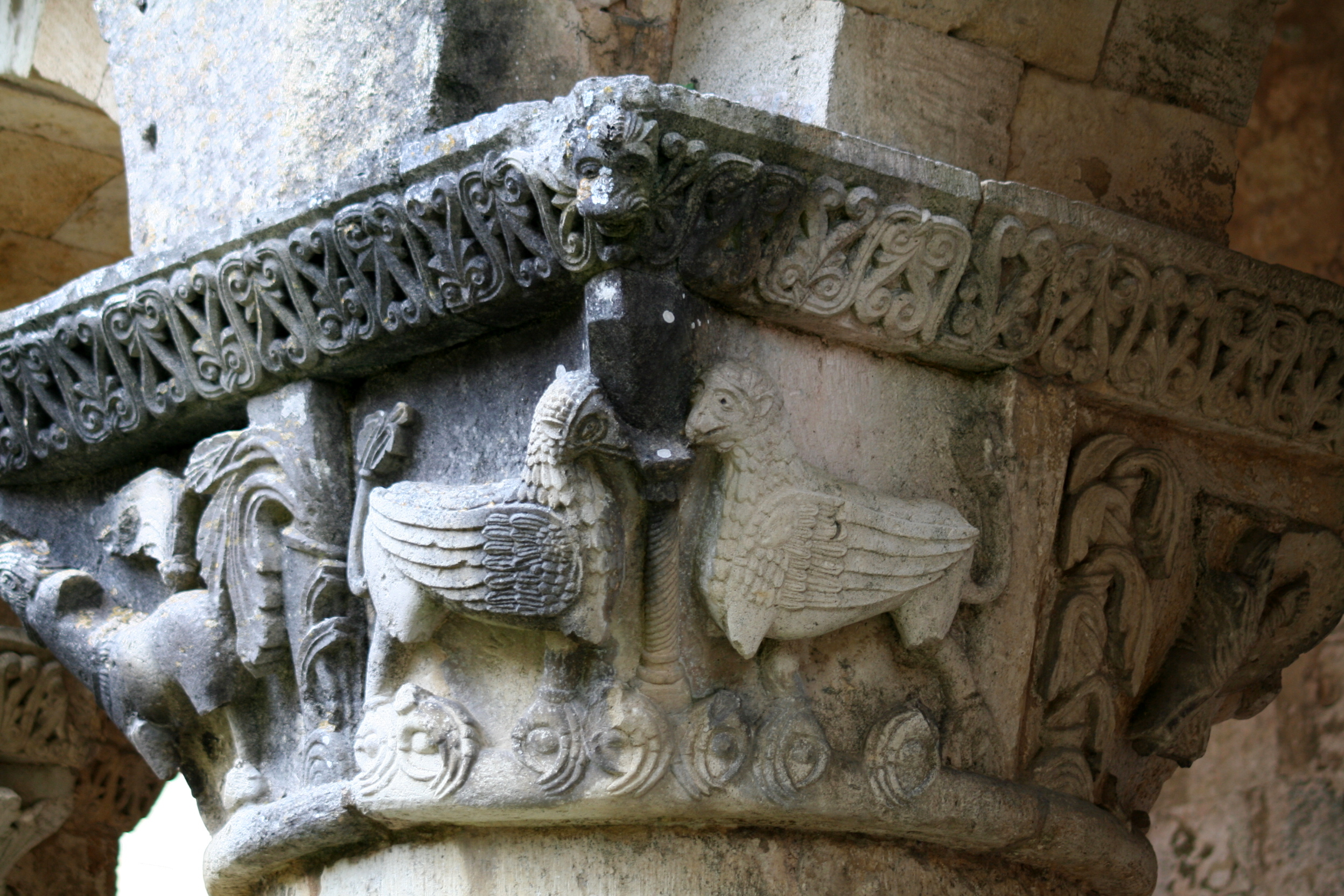 Grande-Sauve Abbey (33) Griffins Drinking from the Same Cup, early 12th century date QS:P,+1150-00-00T00:00:00Z/7